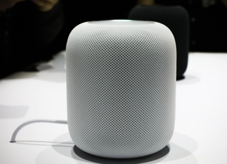 Apple's HomePod speaker (White variant) seen at WWDC 2017